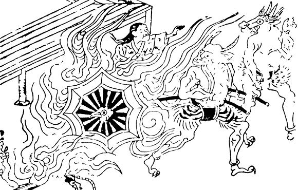 Hi-no-kuruma from the Shin Otogi Boko